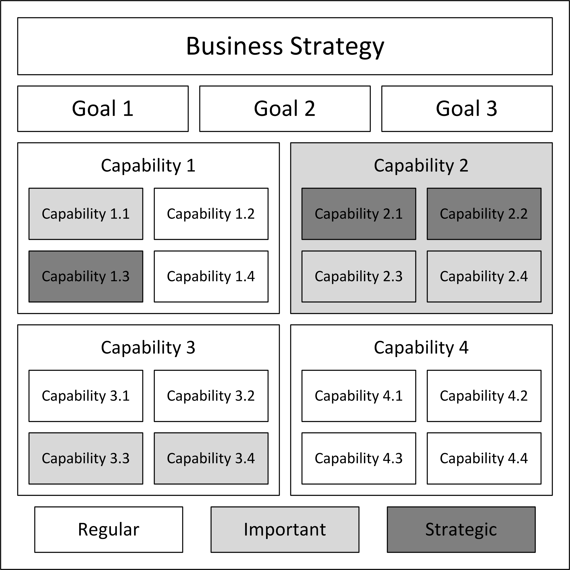 Schematic graphical example of business capability model